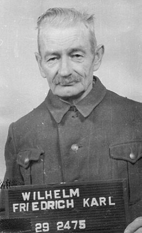 Friedrich Wilhelm was SS-Untersturmführer and in charge of inmate hospital in the concentration camp of Buchenwald. In the Buchenwald Camp Trial (part of the Dachau Trials) he was sentenced to death by hanging.